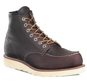 picture of a boot